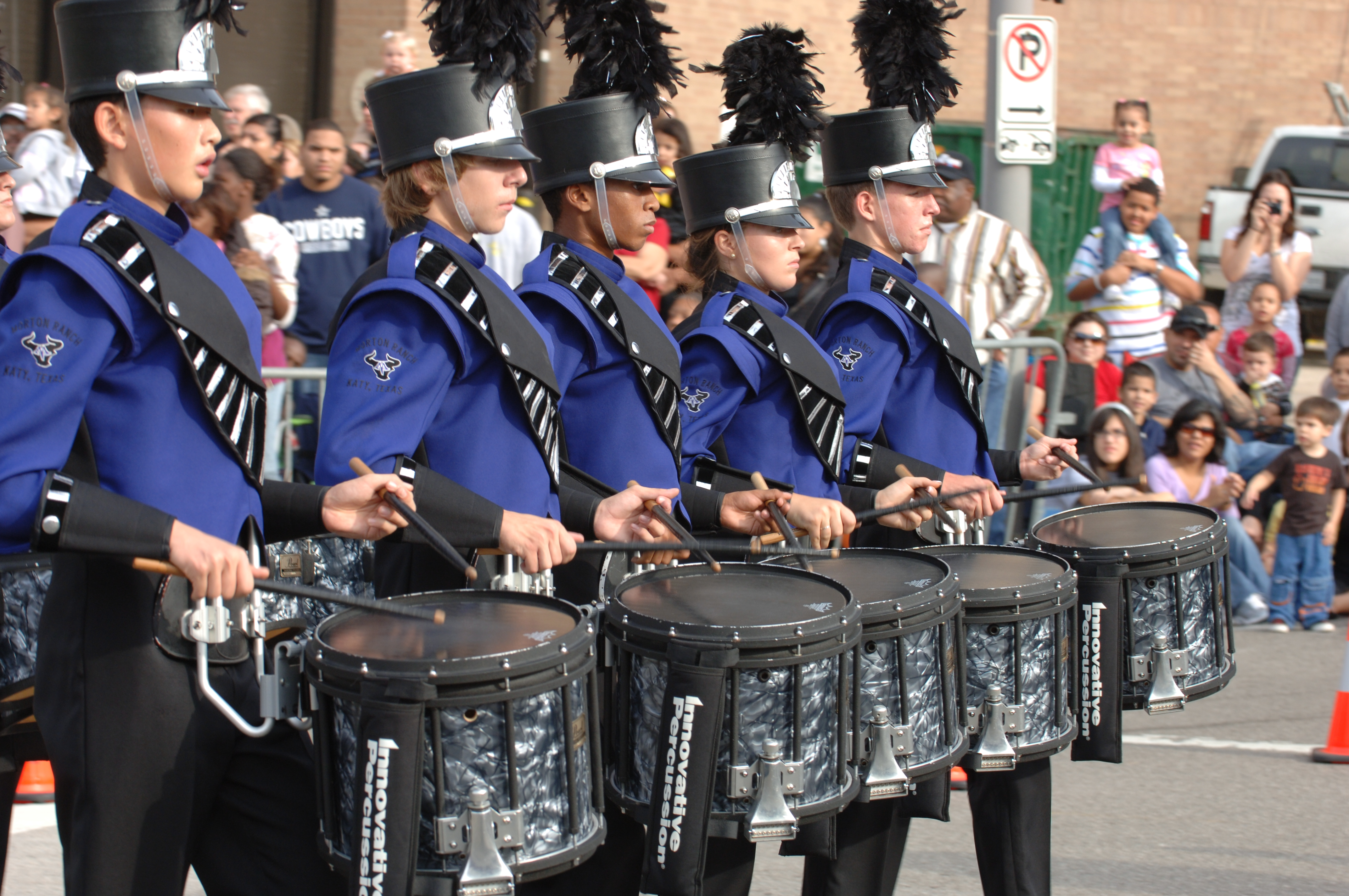 The Morton Ranch High School Band's drumline from Katy, Texas perfoming at the 59th annual H-E-B Holiday Parade in downtown Houston, Texas on November 27, 2008.